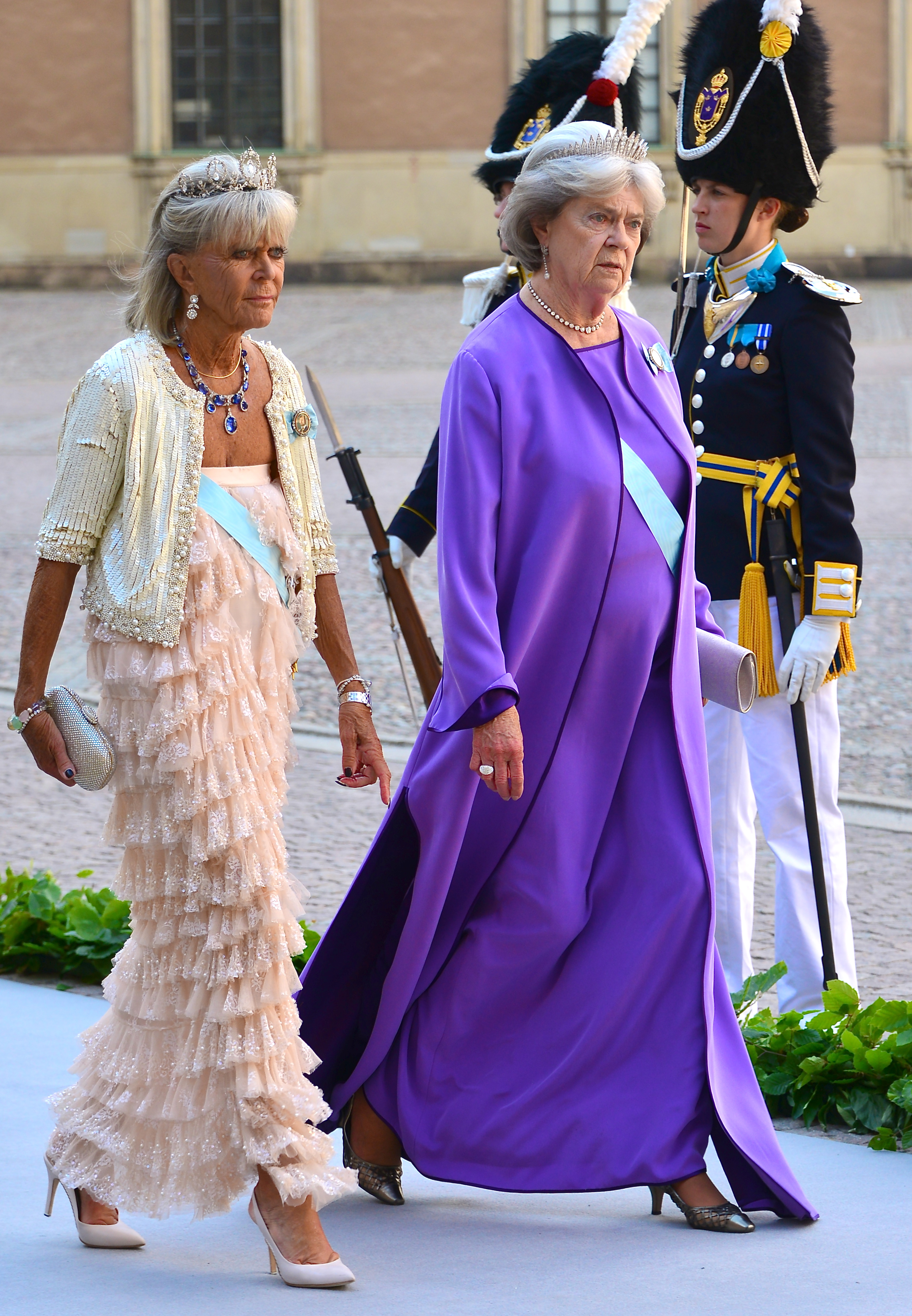 Princess Birgitta and Princess Margaretha on the way to the castle church at the Royal Palace in Stockholm before the wedding between Princess Madeleine and Christopher O'Neill 8 June 2013.